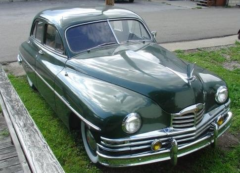 1950 Packard Eight Touring (4-Door) Sedan Model 2301